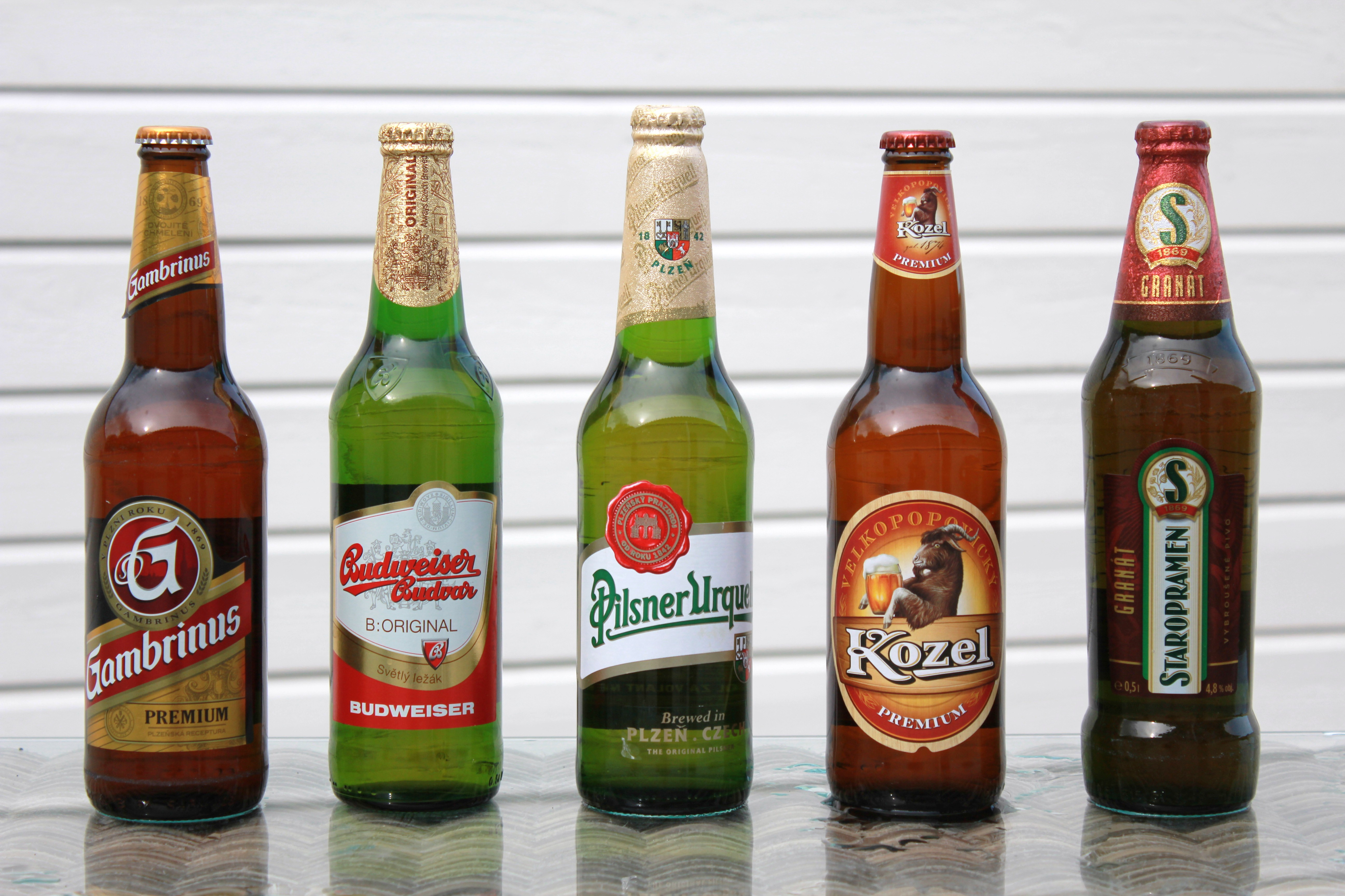 Czech beer